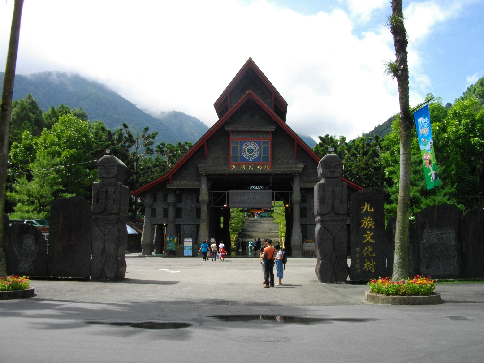 Culture Square (Formosan Aboriginal Culture Village)